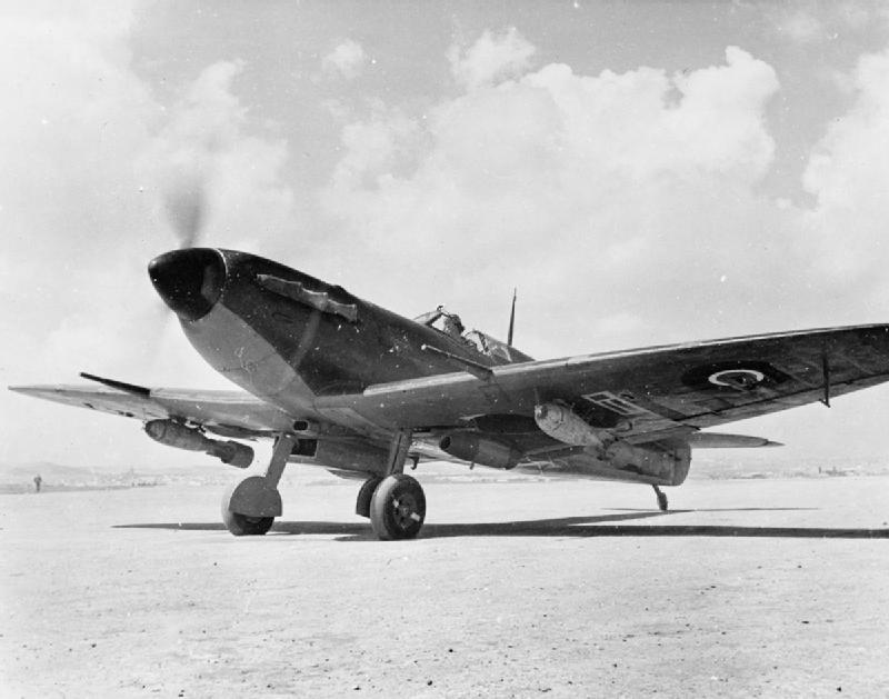 Royal Air Force Operations in the Middle East and North Africa, 1940-1943. A Supermarine Spitfire Mark VB carrying two 250-lb GP bombs on underwing shackles, prepares to take off from an airfield in North Africa. No. 152 Squadron RAF began the first use of the Spitfire as a fighter bomber in North Africa, flying "Rhubarb" sorties from Souk el Khemis, Tunisia, in March 1943.